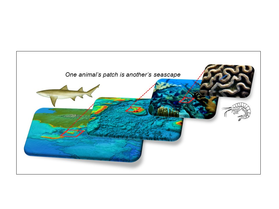 Organism-centered approach to selecting ecologically meaningful spatial scales in marine ecology